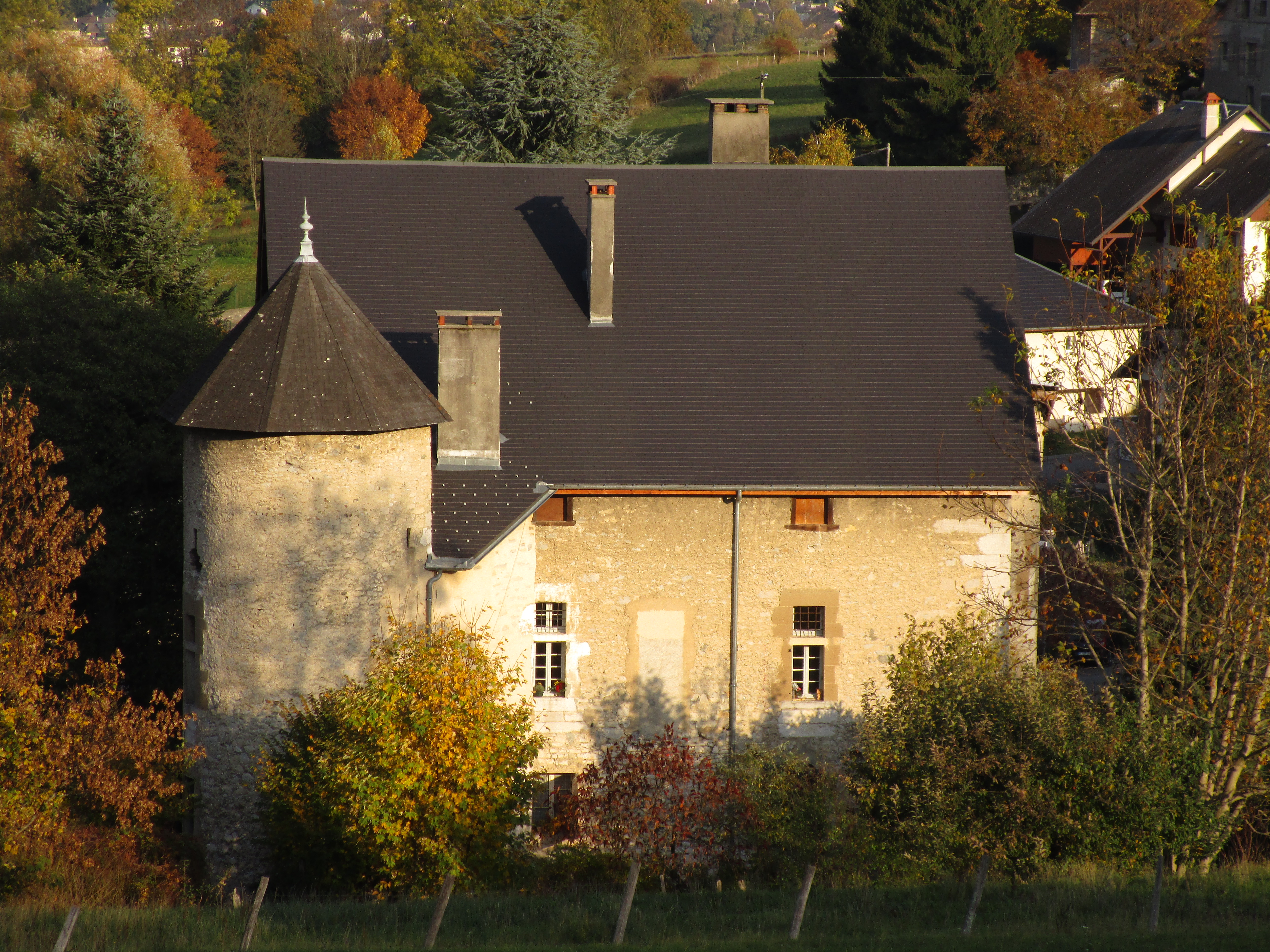 The château de Longeray at Barberaz on November 3, 2016.